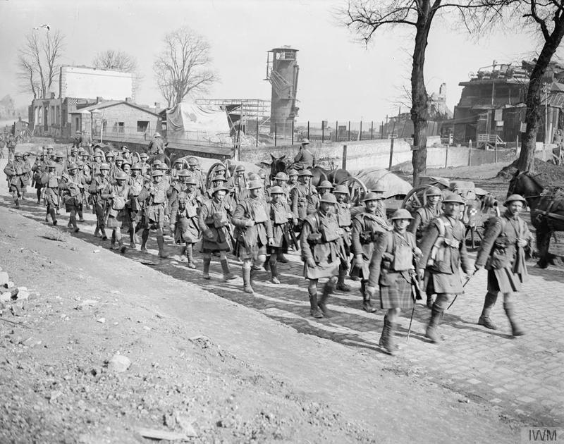 The German Spring Offensive, March-july 1918 Battle of St. Quentin. No. 8 Platoon, B Company of the 7th Battalion, Argyll and Sutherland Highlanders (51st Division) retiring along the Cambrin road near Beaumetz. Limbers of the 25th Division passing in the background.